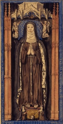 Isabelle de France